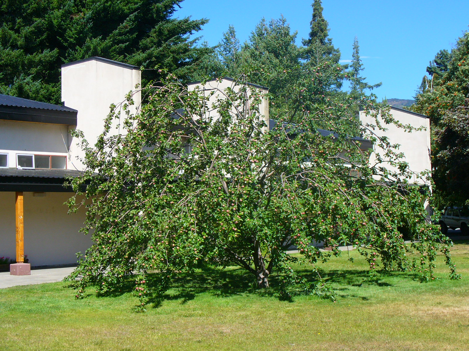 This is a descendant of the Newton's apple tree. Donated by the East malling Research and planted in 1981 in the Centro Atómico Bariloche in the Instituto Balseiro library garden, among with two more of them planted in the Centro Atómico Constituyentes and in the main offices.